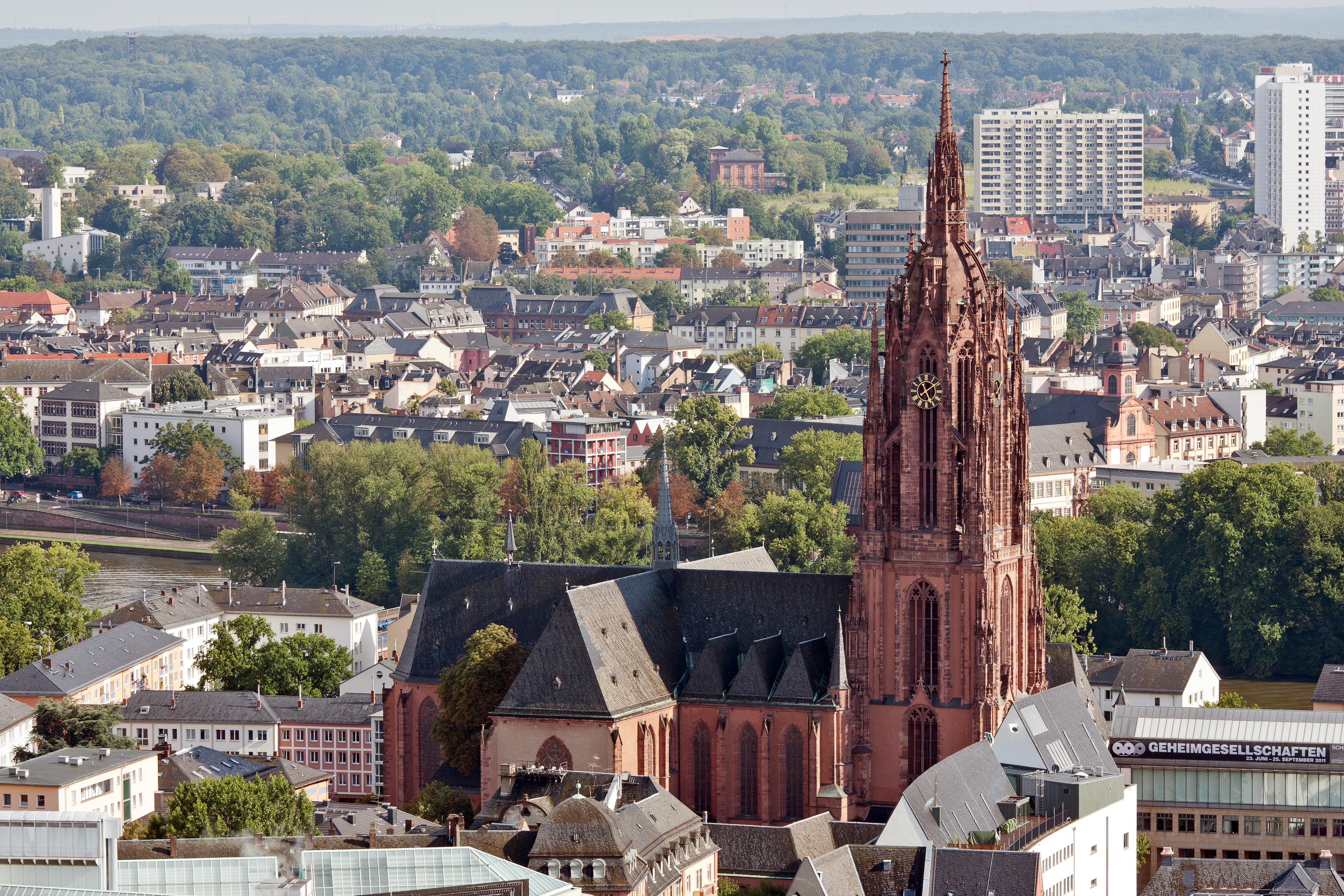 Frankfurt on the Main: Kaiserdom St. Bartholomäus (Frankfurt Cathedral) as seen from the Nextower